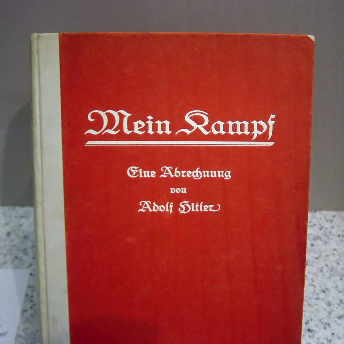 First edition of Adolf Hitler's book "Mein Kampf", July 1925. An exhibit of the German Historical Museum in Berlin